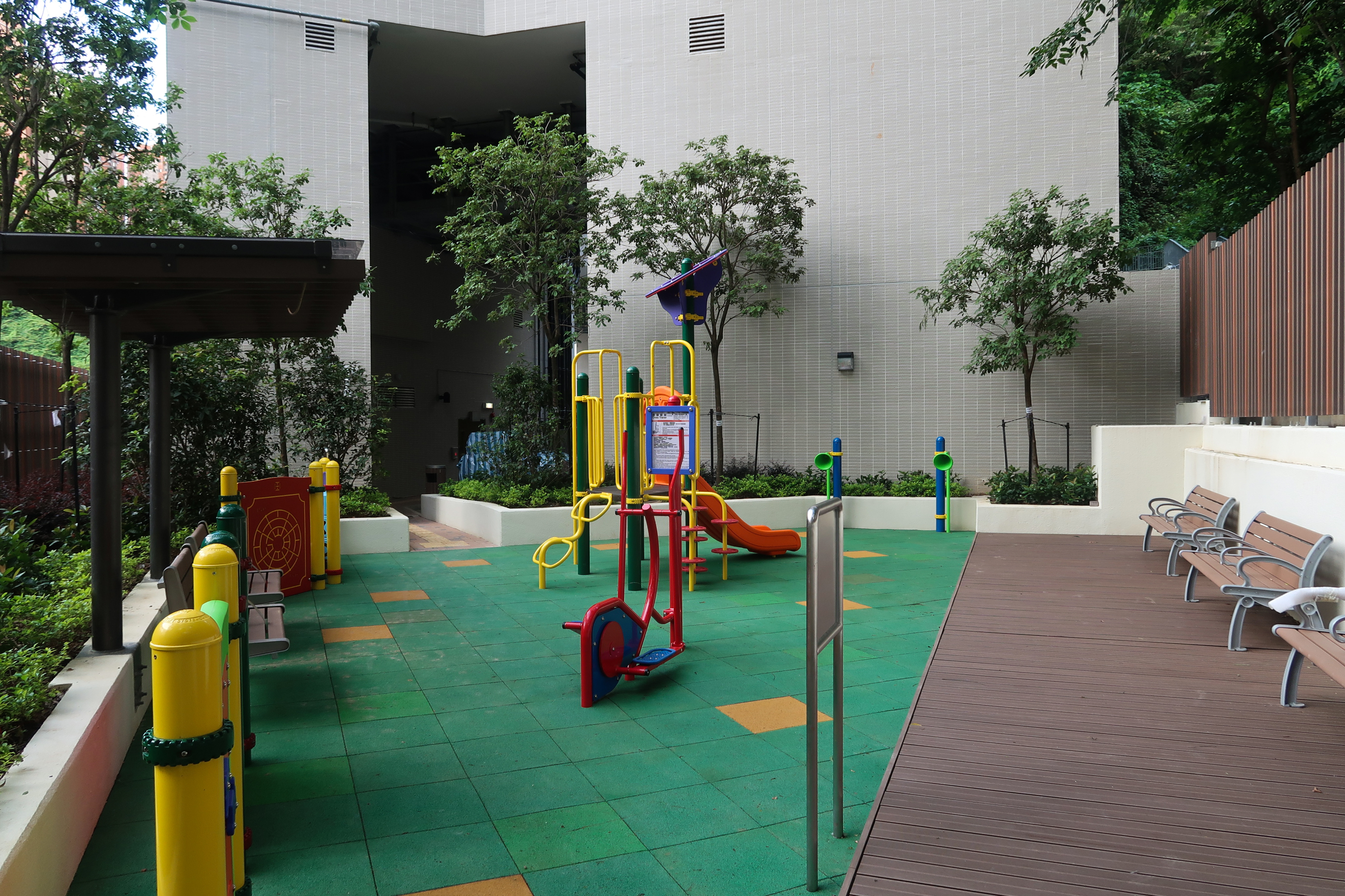 Ka Shun Court